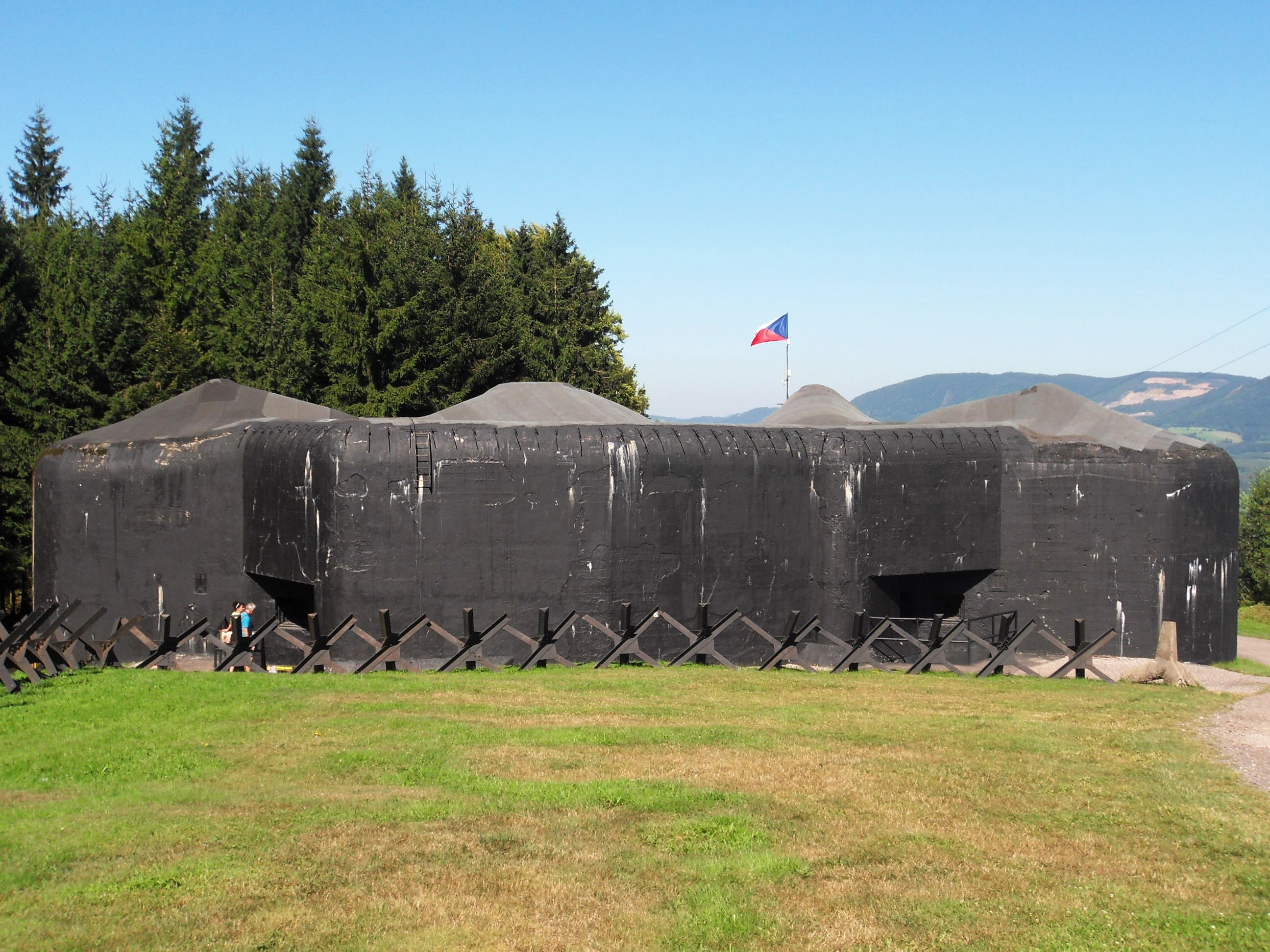 T-S 73 Polom infantry casemate, Stachelberg fortress, Trutnov District, Czech Republic